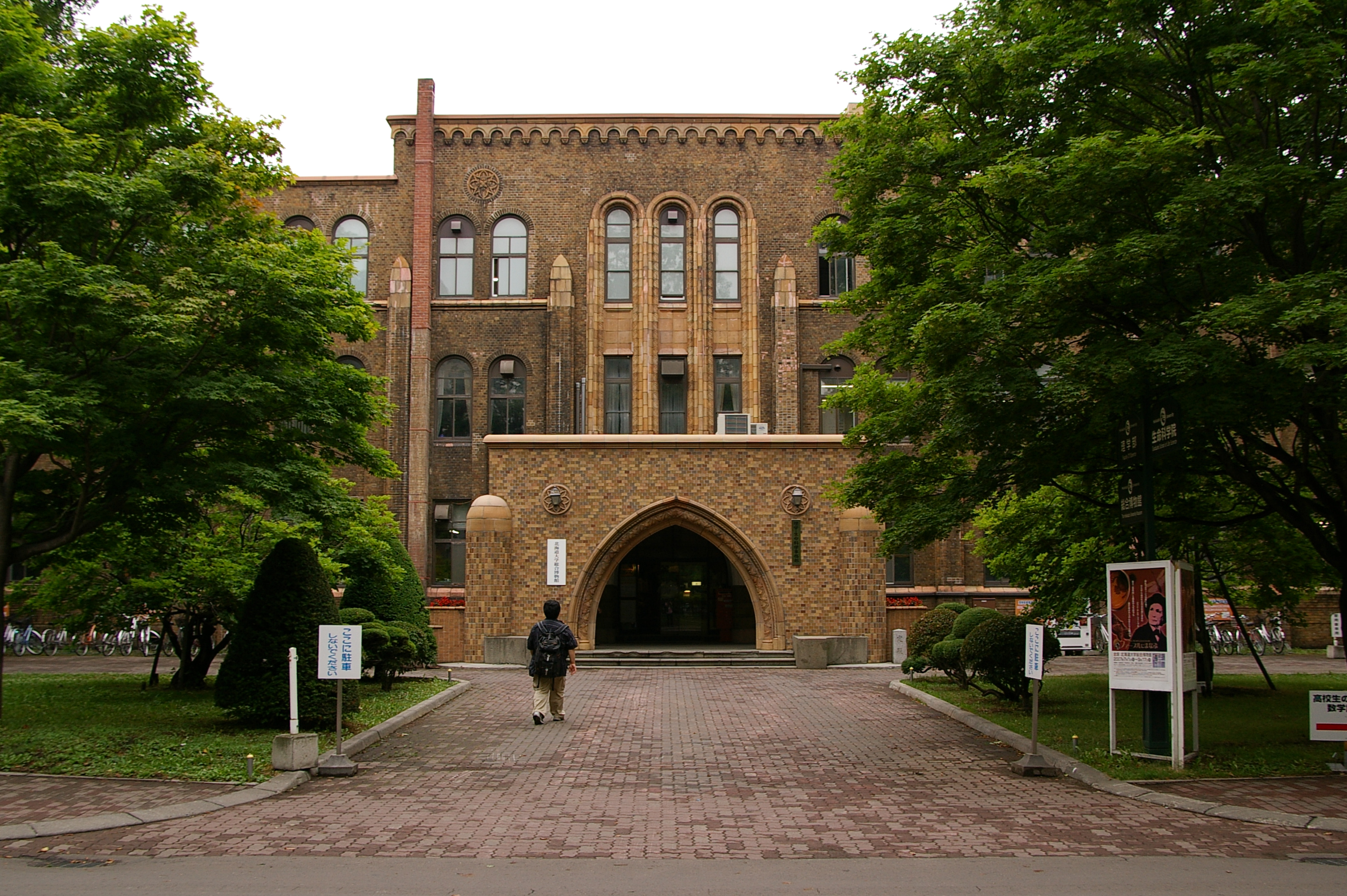 Photograph of the Hokkaido University Museum in Sapporo Campus, Hokkaido University, Kita-ku, Sapporo, Hokkaido, Japan.